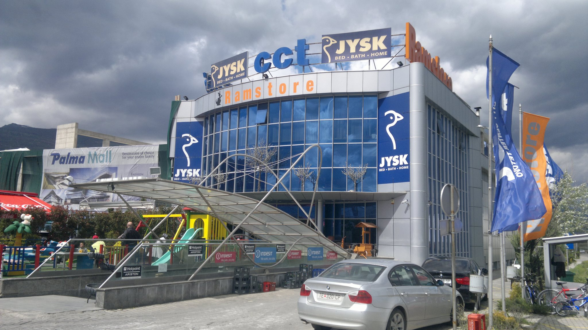 Ramstore Shoping Center In Tetovo Republic Of Macedonia